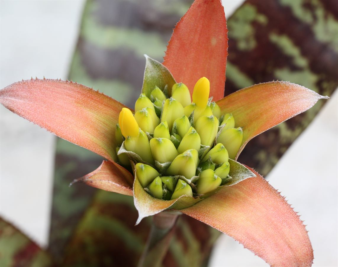 Canistrum seidelianum